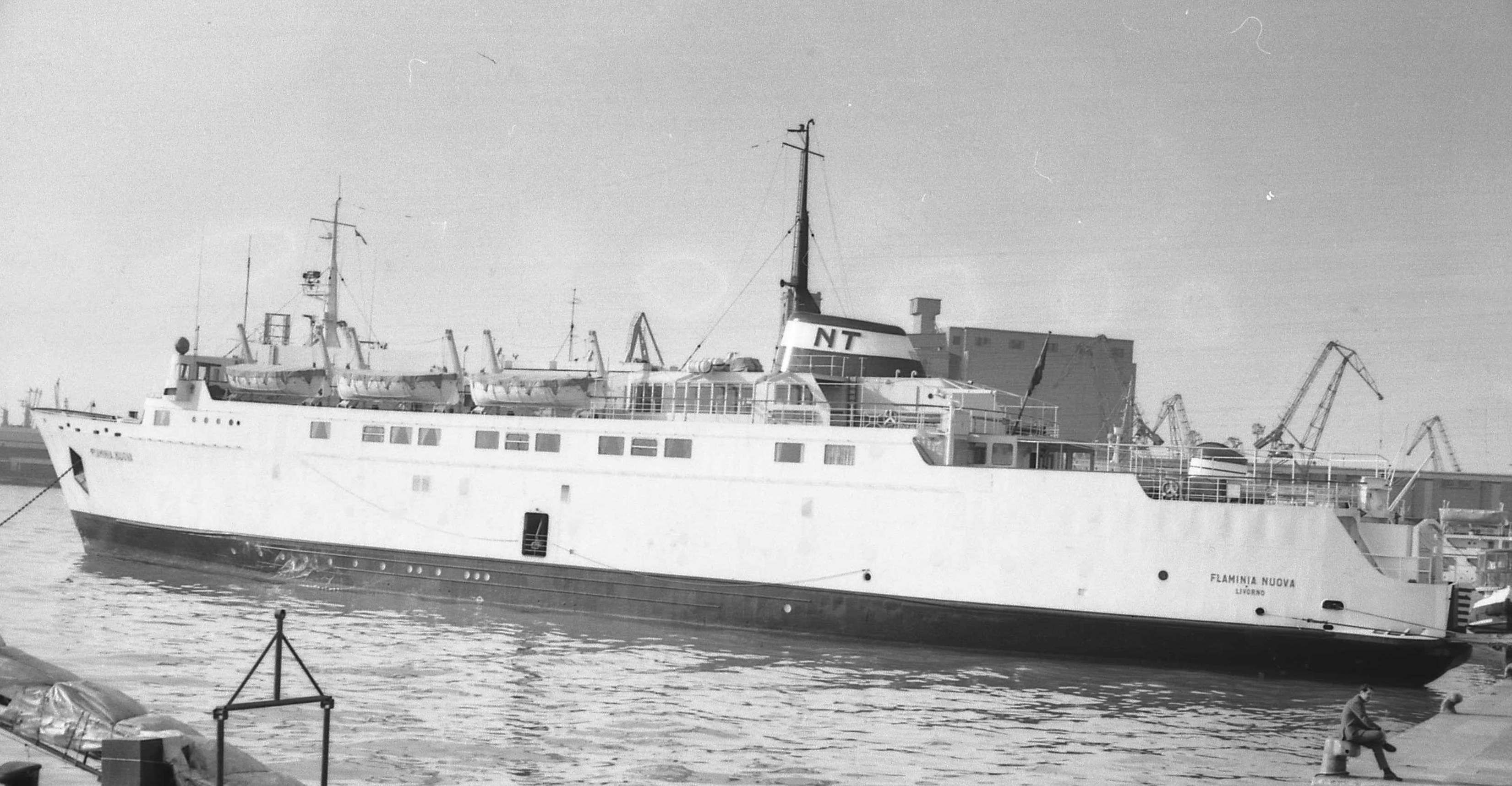 Operator: Società di Navigazione Toscana IMO: 5286100 Type: Ropax Builder: Aarhus Shipyard, Aarhus, Denmark Yard number: 111 Orderd date: April 23, 1959 Keel down: August 31, 1959 Launch date: January 19, 1960 Delivery date: June 12, 1960 Port of registry: Livorno Gross tonnage: 2196 t Net tonnage: 866 t DWT: 850 t Length overall: 88.36 m Breadth: 15.26 m Draught: 4.57 m Main engine: Två Nohab M66TS diesel engine Engine power: 4,235 kW Speed: 17.5 knots Passengers: 900 Cars: 80 Trucks: 10 Previous name: Prins Bertil (June 11, 1960 – (April 1964), Calmar Nyckel (April 1964 – April 1965), Holmia (April 1965 – January 1971) After name: Capo Bianco (February 1974 – 1992), Diana Marine ( 1992 – 1994), Raneem I (1994 – 1997), Shorouk (1997 – 1998), Shorok I (1998 - ?)